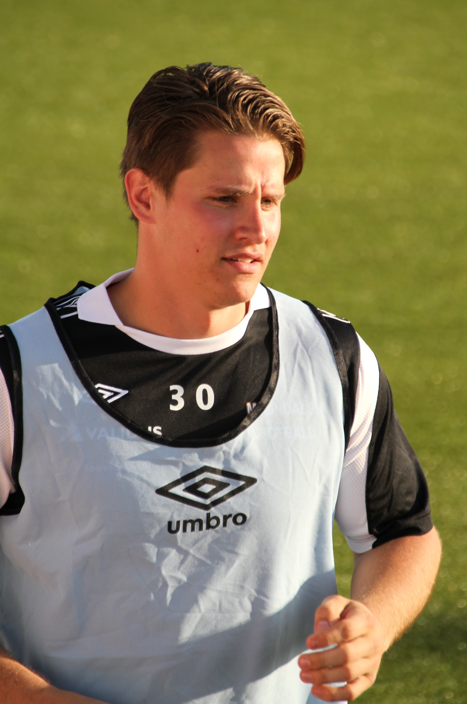 Mjöndalen (Norway) preparing for match against Ik Start. May 20, 2012.